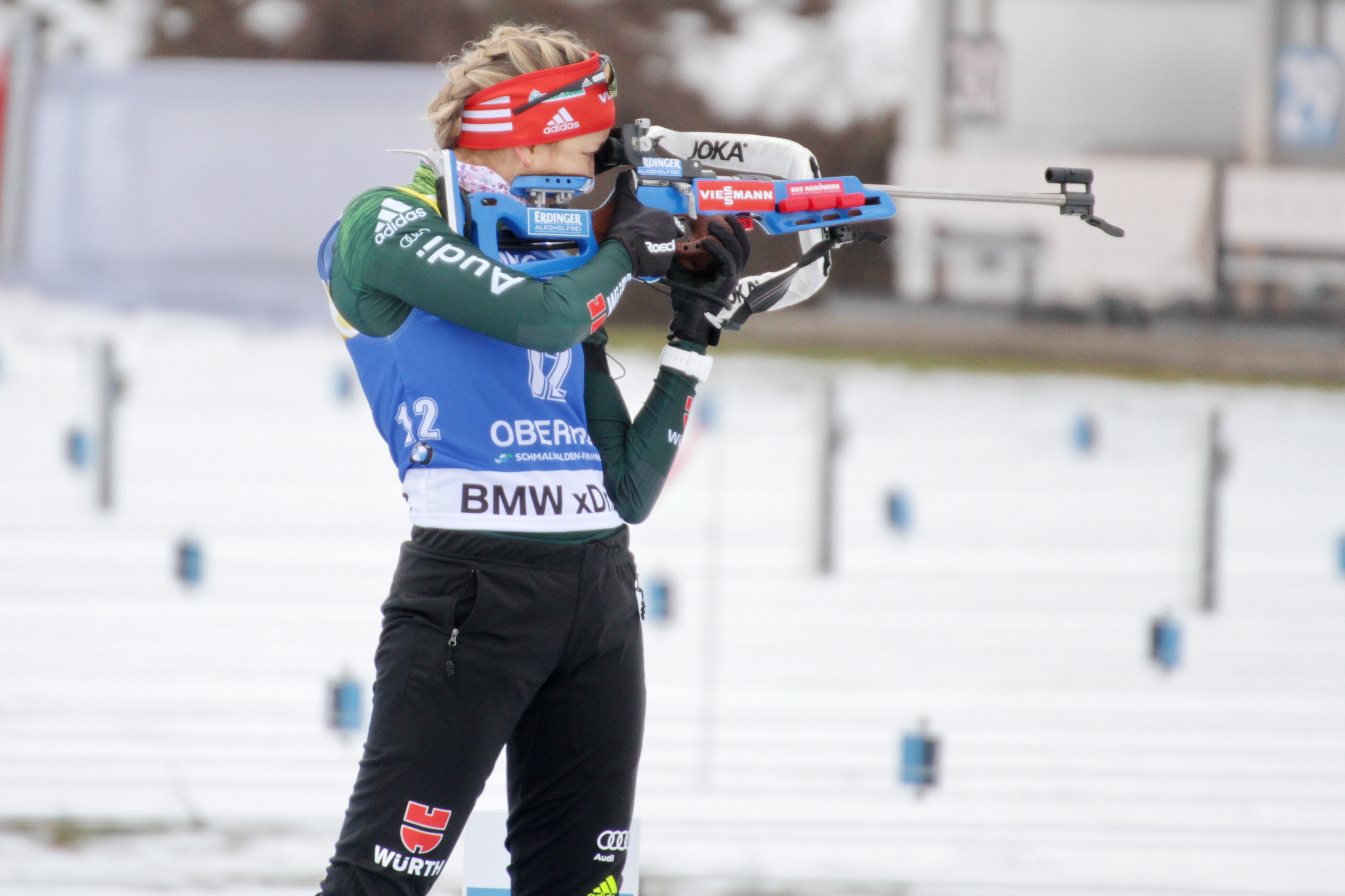 2018 Oberhof Biathlon World Cup - Pursuit Women